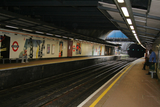 Rotherhithe station, East London Line Stand on the gloomy platforms of Rotherhithe station, and between trains you can almost hear the ghostly voice of Marc Brunel as he copes with the difficulties of building the Thames Tunnel. This station is a real time capsule - but, to see it, go now, for on 23 December 2007 it will close for 2-3 years as the East London Line is transformed to the East London Railway, and thereby changed out of all recognition.